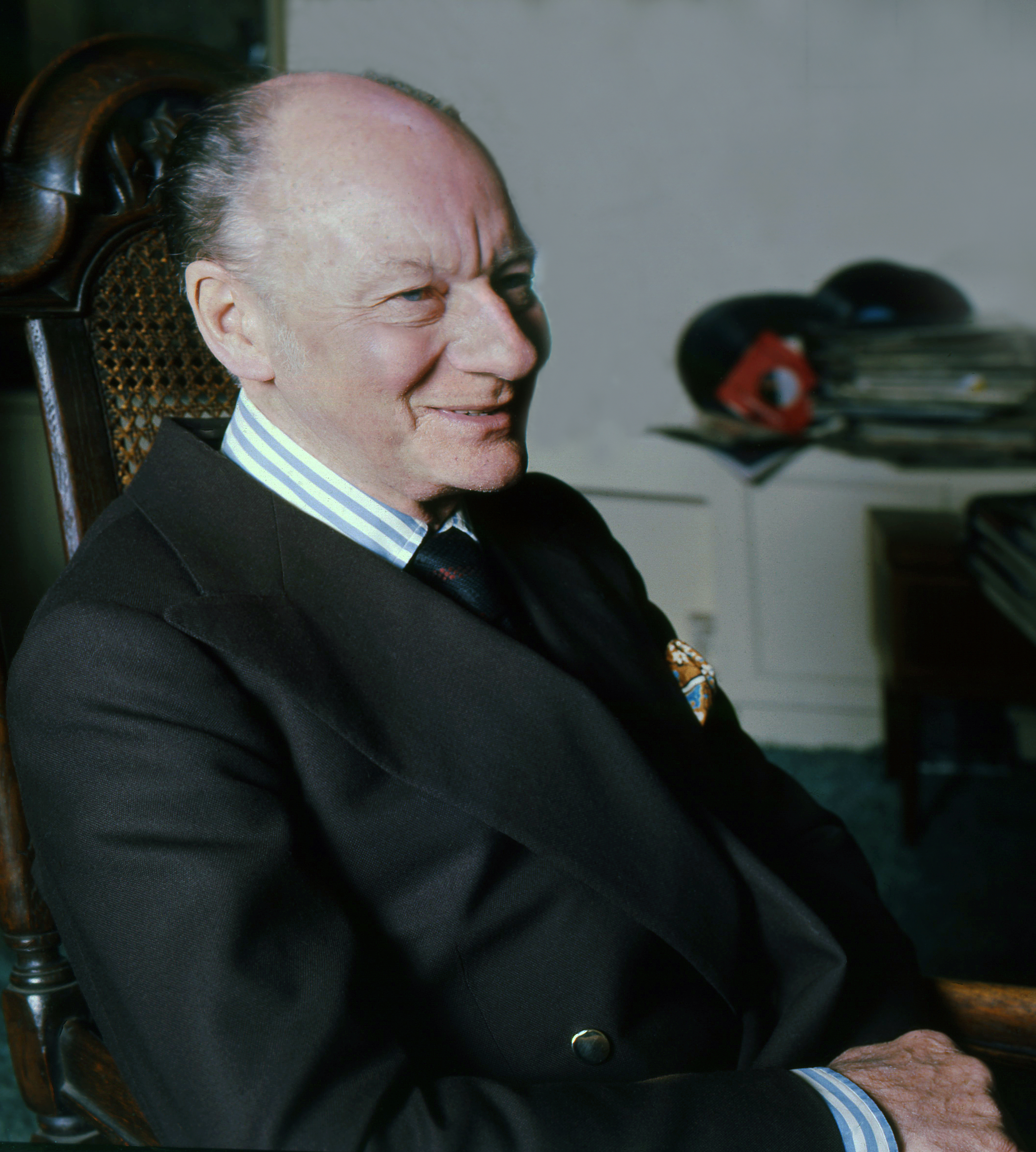 Sir John Gielgud taken in photographer's home, London